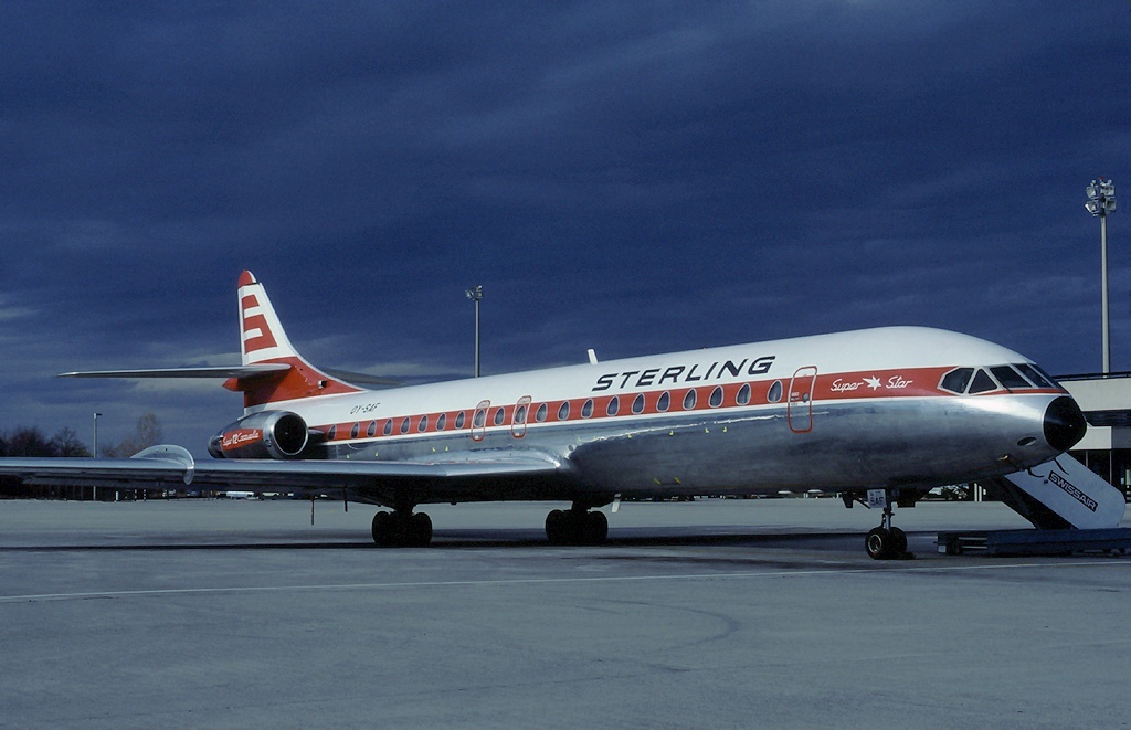 Sterling Aérospatiale SE 210 Super Caravelle 12 OY-SAF at Euroairport (Basel, Mulhouse, Freiburg)